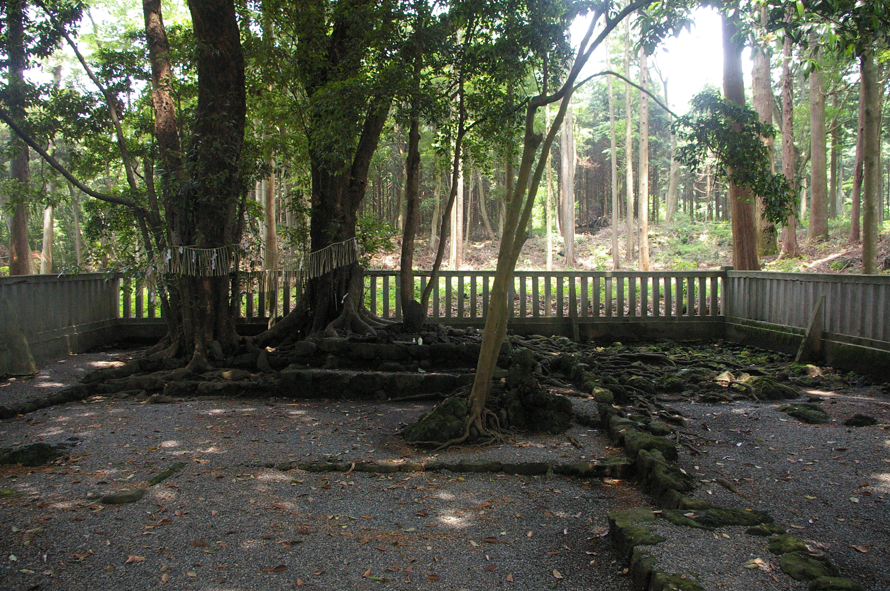 Mountain shrine Asama shrine Shizuoka Pref. Fujinomiya-shi, Japan